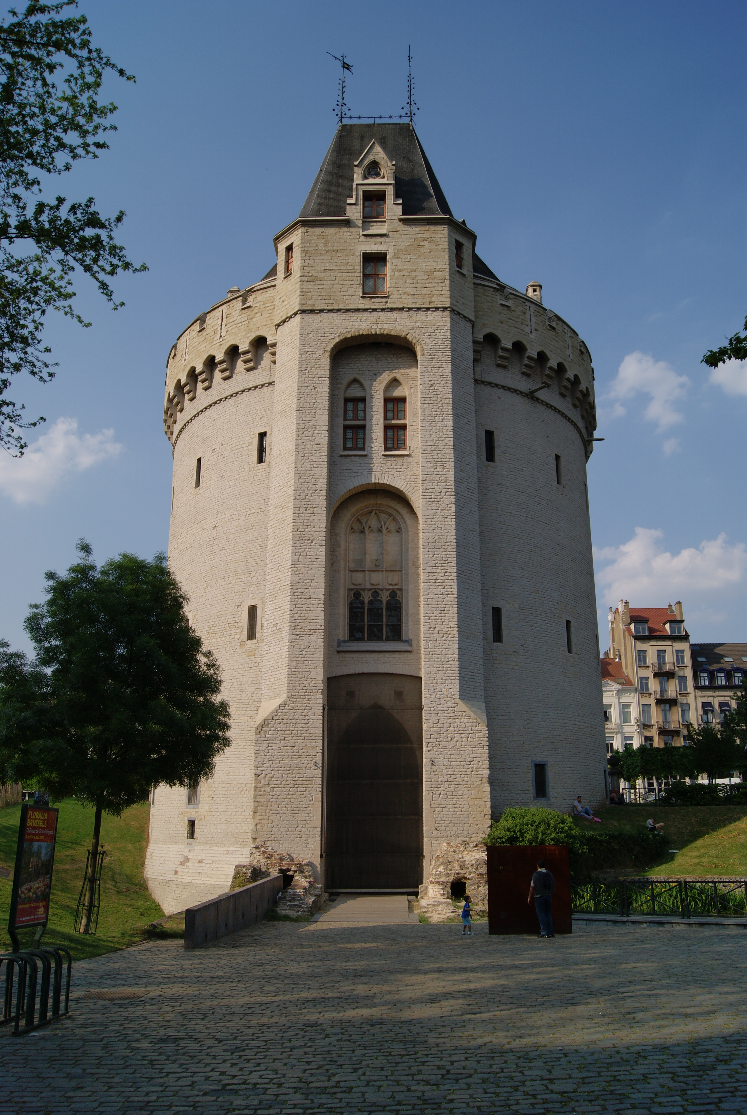 Porte de Hal (French)/Hallepoort (Dutch) is a medieval fortified city gate of the second walls of Brussels. The picture is showing it from the Saint-Gilles side (2011).